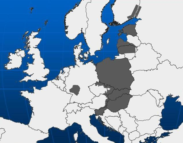 Countries and regions in Europe, which made ​​the oral vaccination against rabies in wildlife